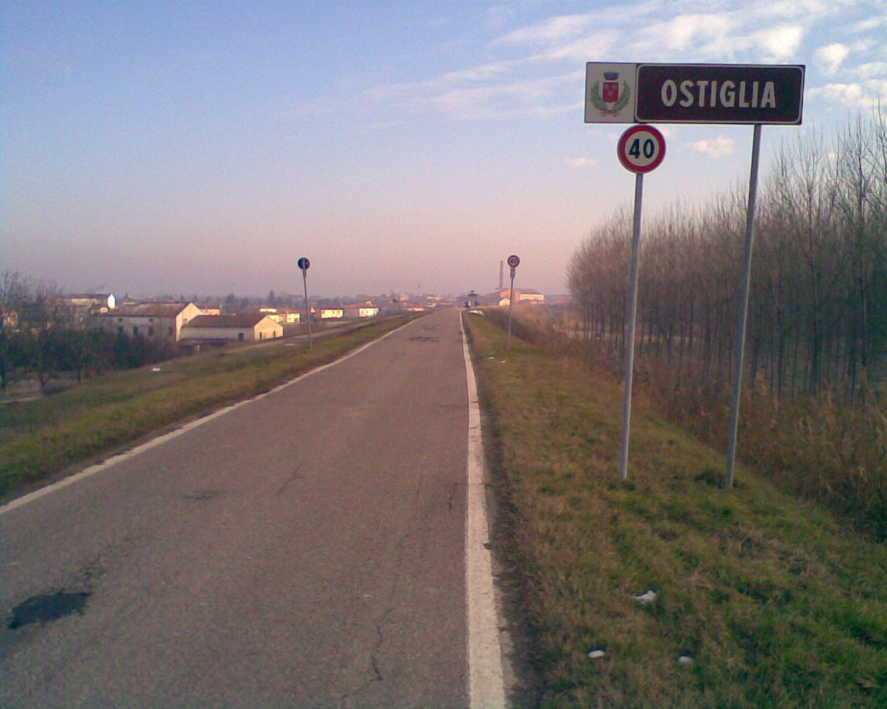 Ostiglia, Italy